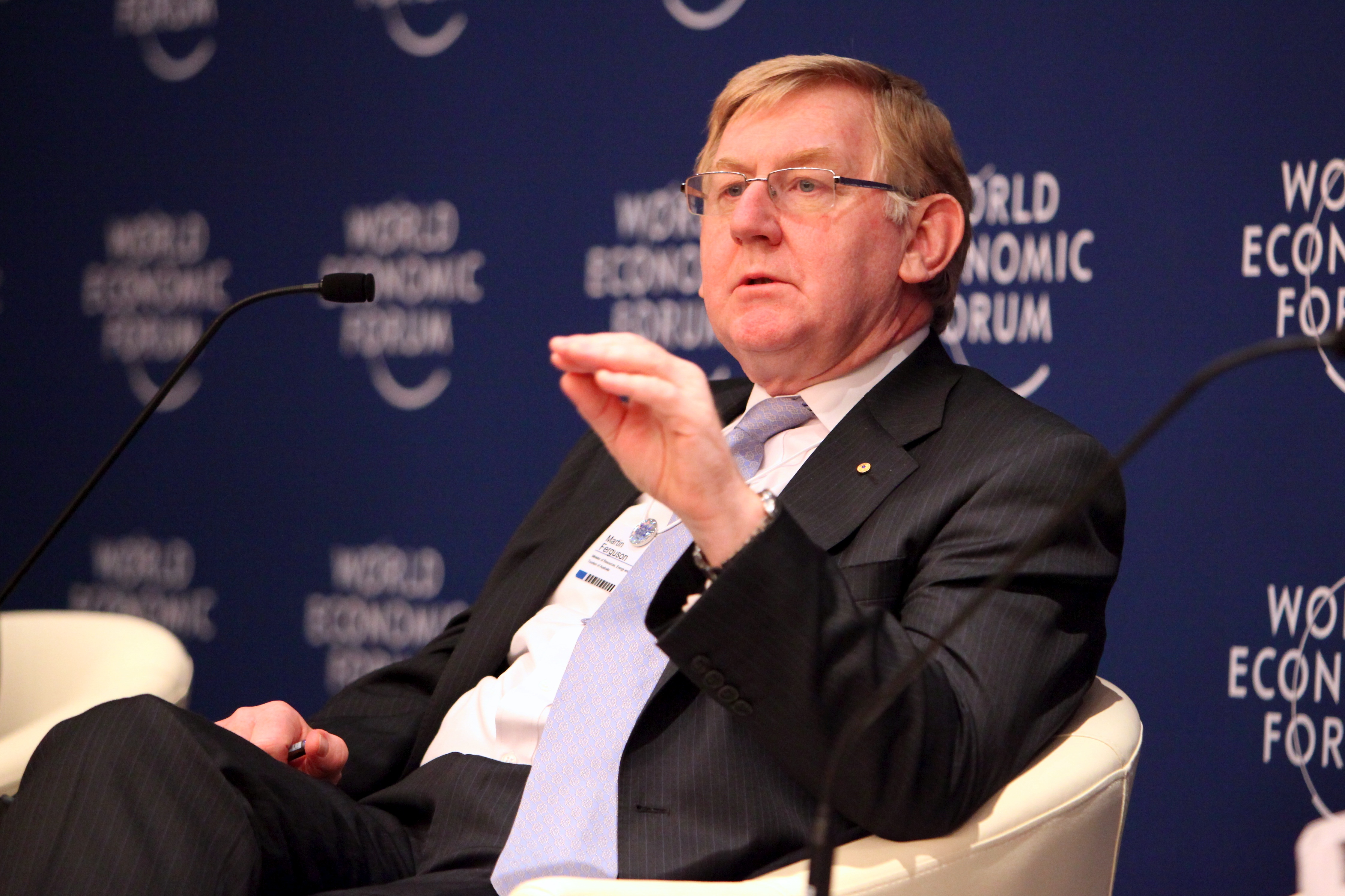 BANGKOK/THAILAND, 1JUNE12 - Martin Ferguson, Minister for Resources, Energy and Tourism of Australia, is captured during the World Economic Forum on East Asia in Bangkok, Thailand, June 01, 2012. Copyright World Economic Forum ( Photo by Sikarin Thanachaiary